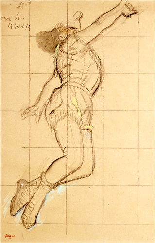 Lala, drawing study